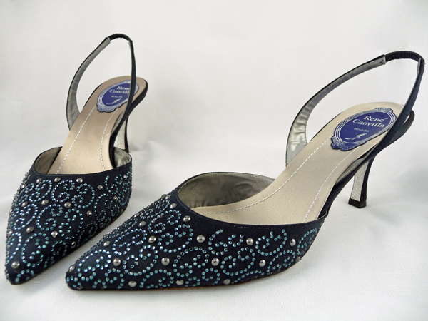 Caovilla Slingbacks from Wilkes Bashford